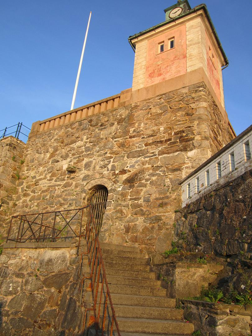 Fort Fredriksborg, site of Sweden's first synagogue, as released by image creator FamSAC; Place: Marstrand, Sweden